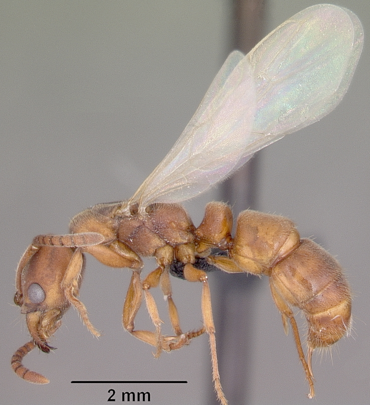 Profile view of ant Pachycondyla darwinii specimen casent0476550.